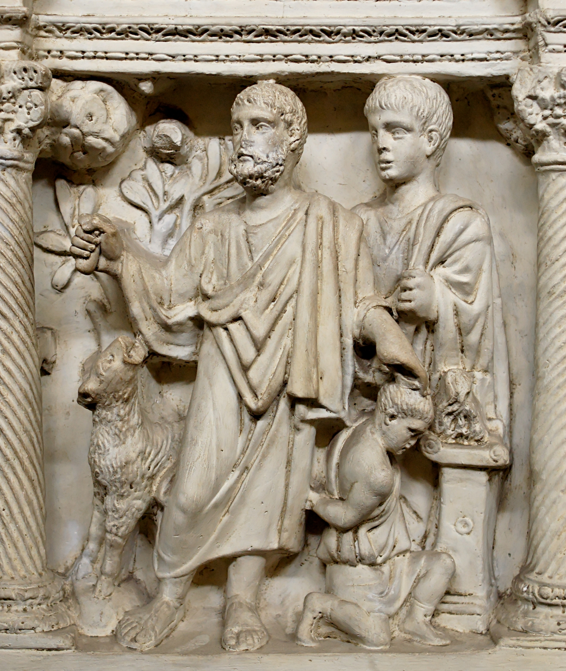 Isaac's sacrifice. Cast from a panel of the sarcophagus of Junius Bassus, bearing the date 359 CE, now in the Treasury of St. Peter's. Original from the Confession under St. Peter's Basilica, 1595 or 1597.